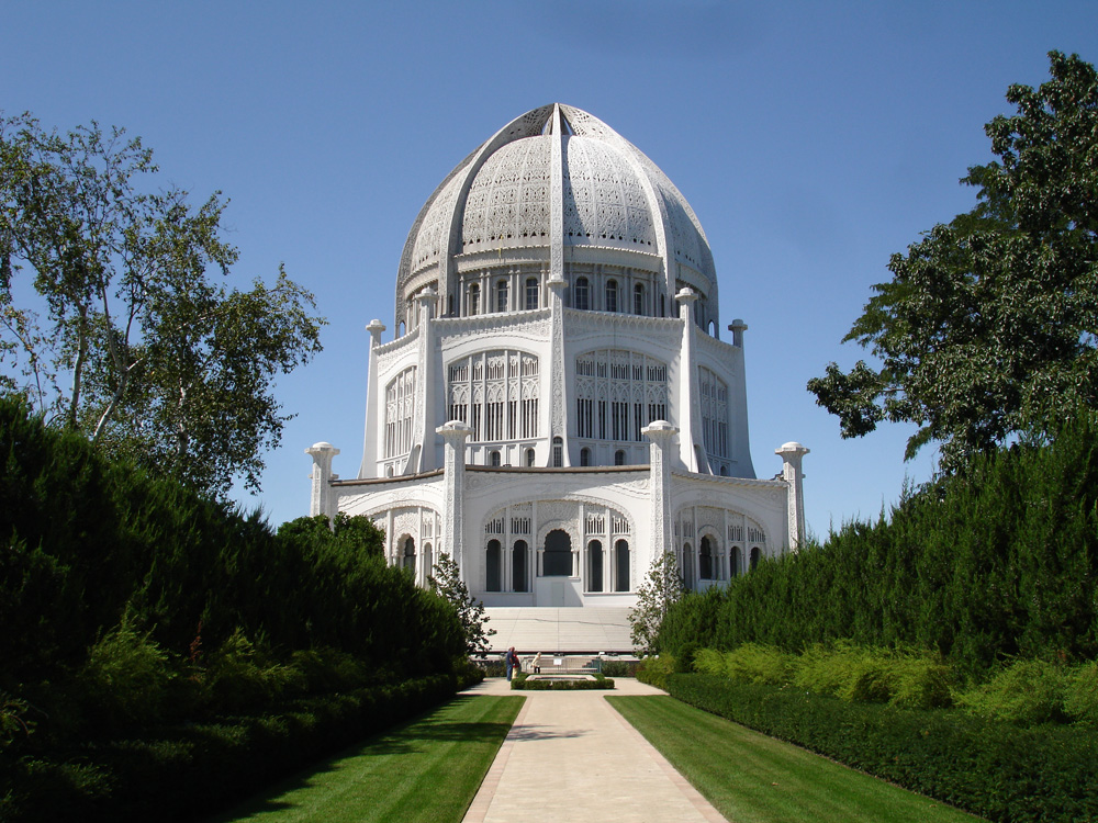 Baha'i House of Worship in Willmette, IL, USA